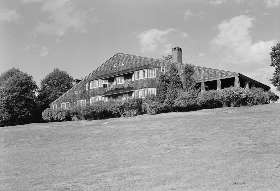 William G. Low House, 3 Low Lane, Bristol, Rhode Island (1886-87, demolished 1962), McKim, Mead & White, architects.